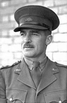 CAIRO, EGYPT. 1942-02. LIEUTENANT COLONEL R.G. POLLARD, HQ A.I.F. (MIDDLE EAST).